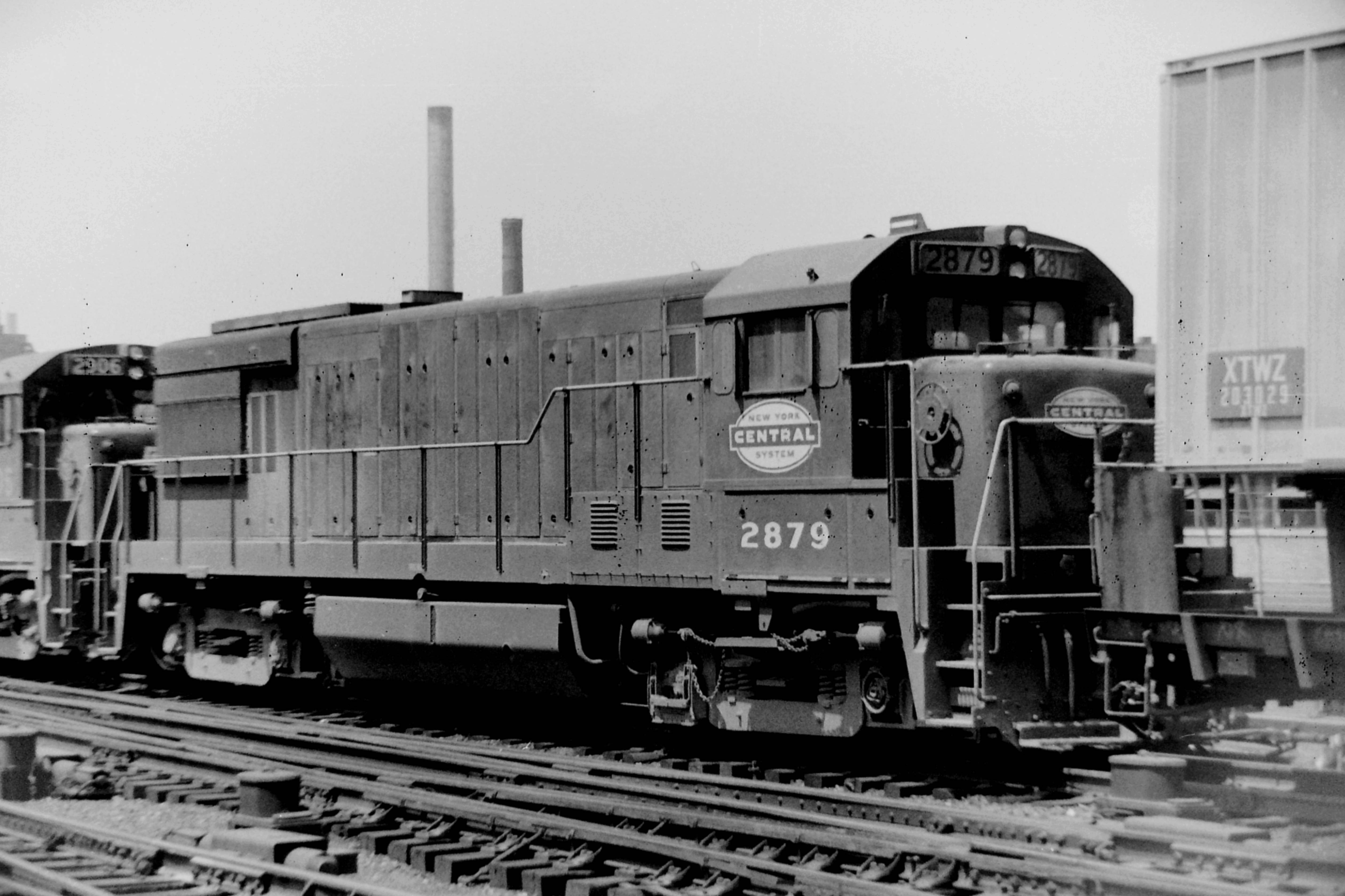 Penn Central GE U30B #2879 still in New York Central livery on a freight passing through Penn Central Station, Pittsburgh, 7/70.